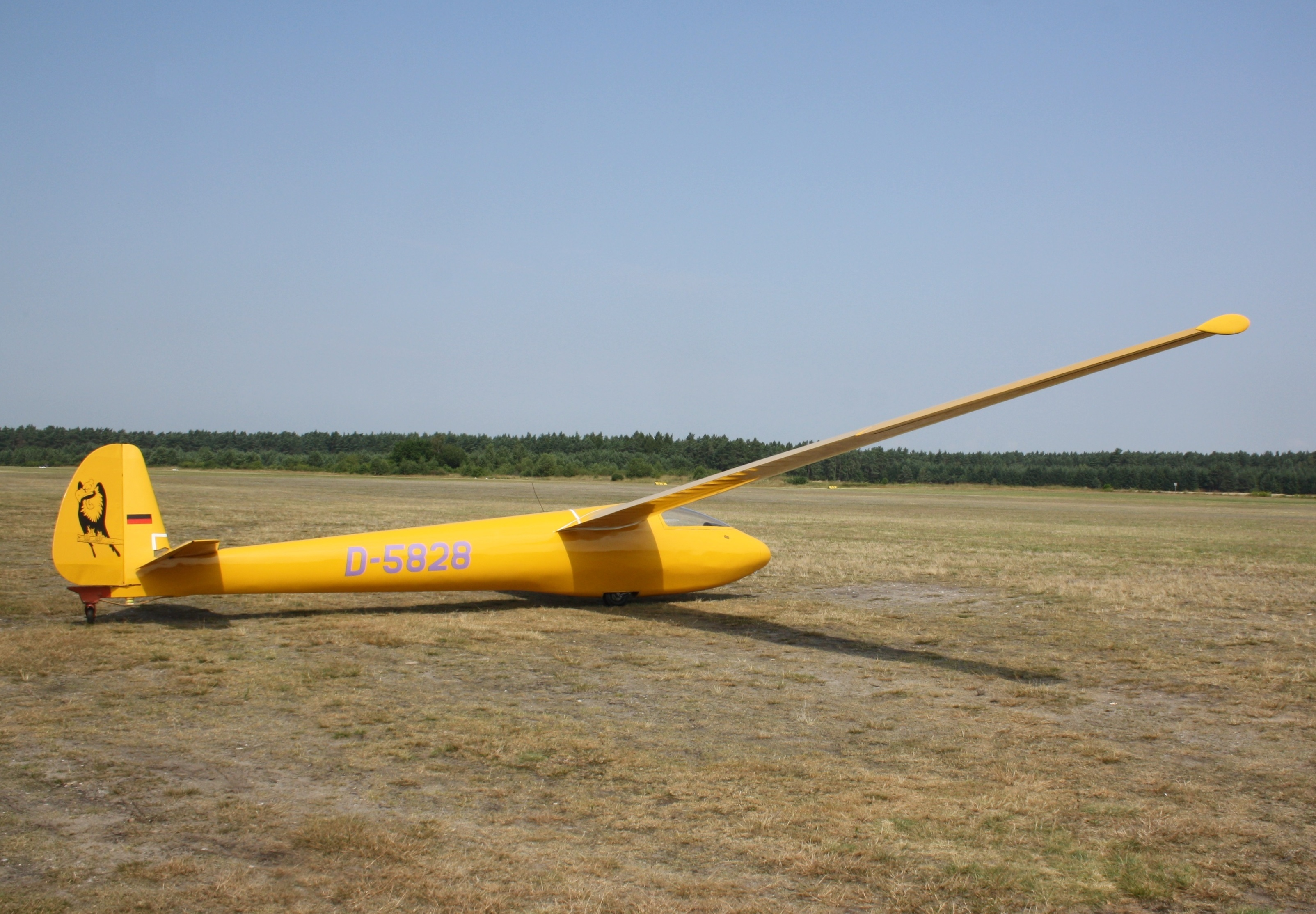 Sailplane Geier II B at airfield Wilsche